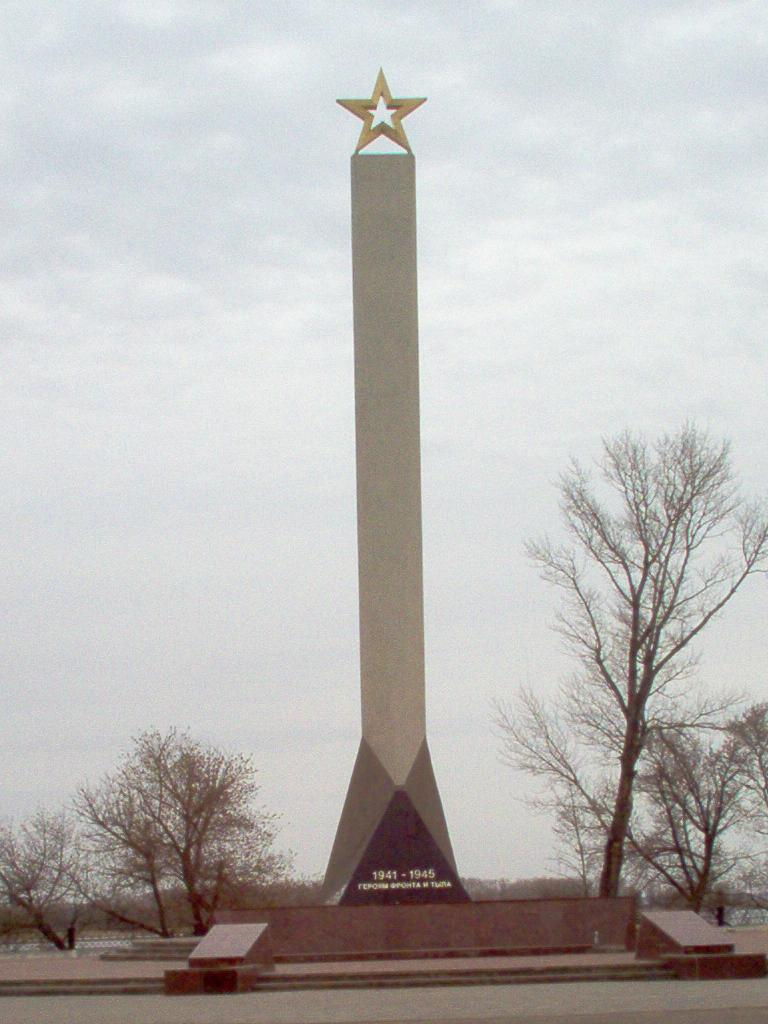 Memorial of the Great Patriotic War in Engels (Oblast Saratov, Russia)